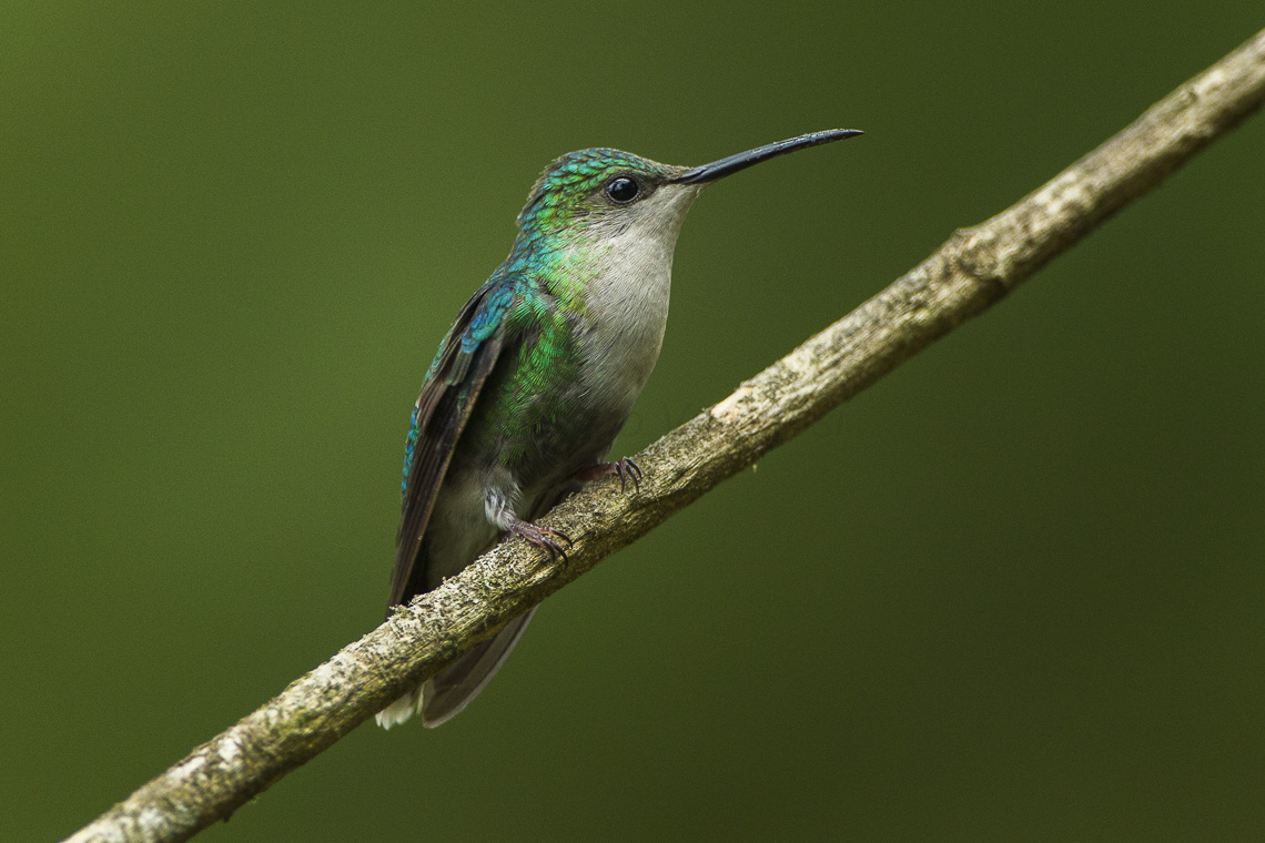 Violet-crowned Woodnymph fem - La Corora - Costa Rica_S4E1633